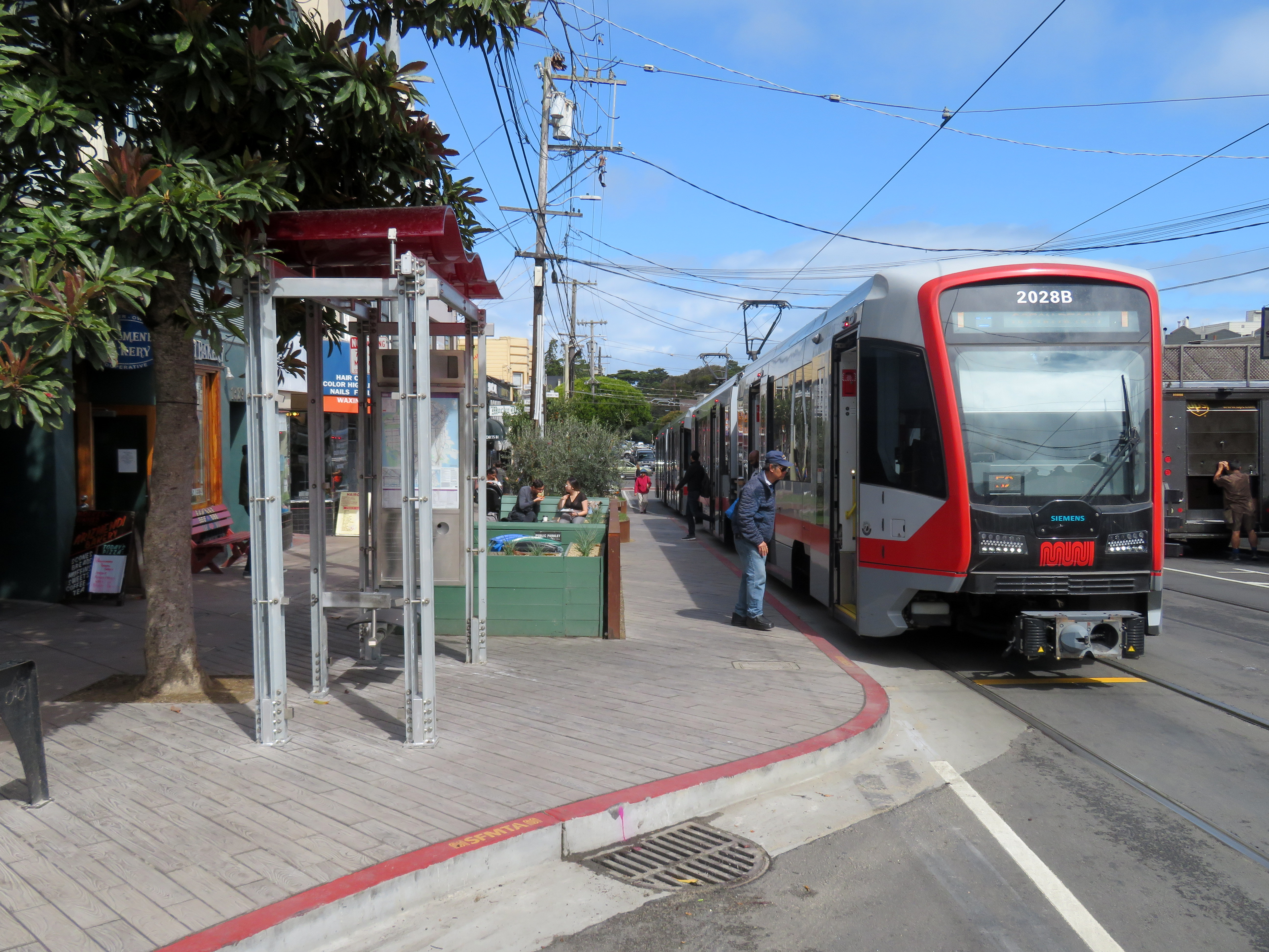 An outbound train at the newly-opened platform at 9th Avenue and Irving in September 2019